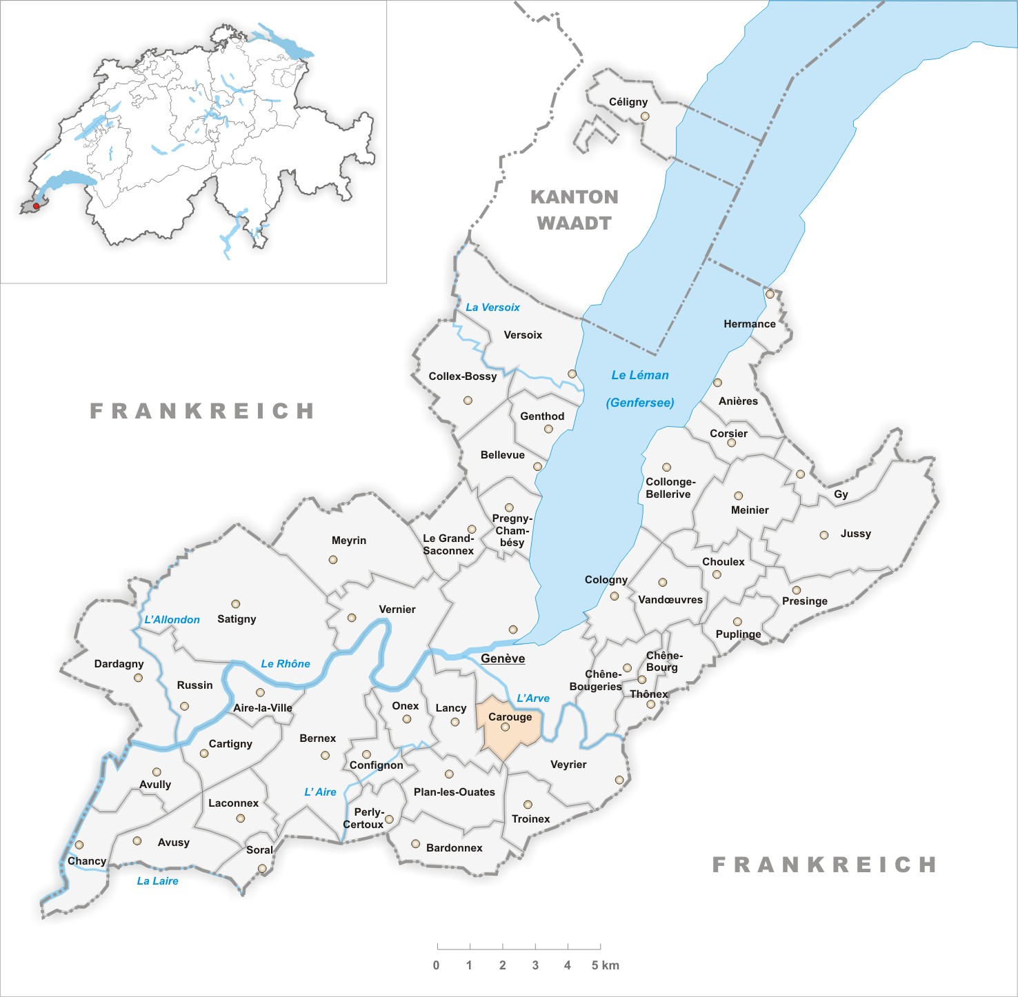 Municipality Carouge